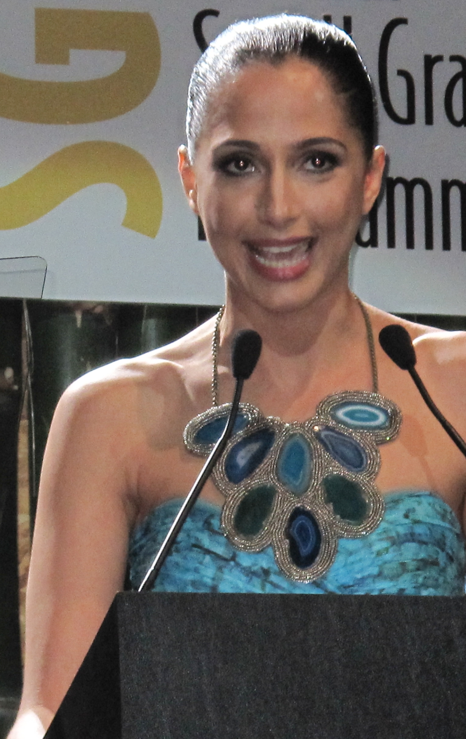 Camila Pitanga in the Equator Prize 2012: Award Ceremony.